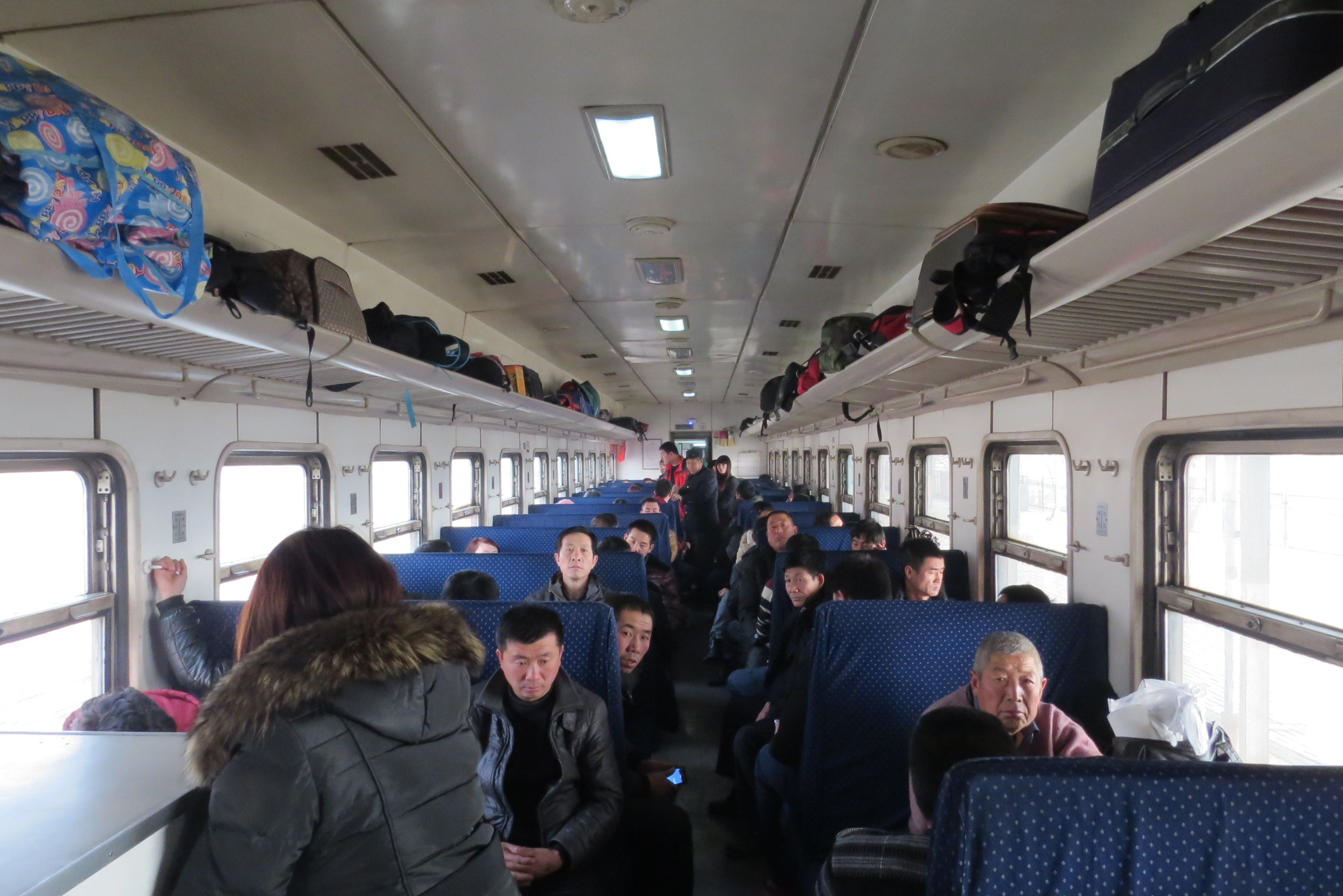 There are four 22Bs here.